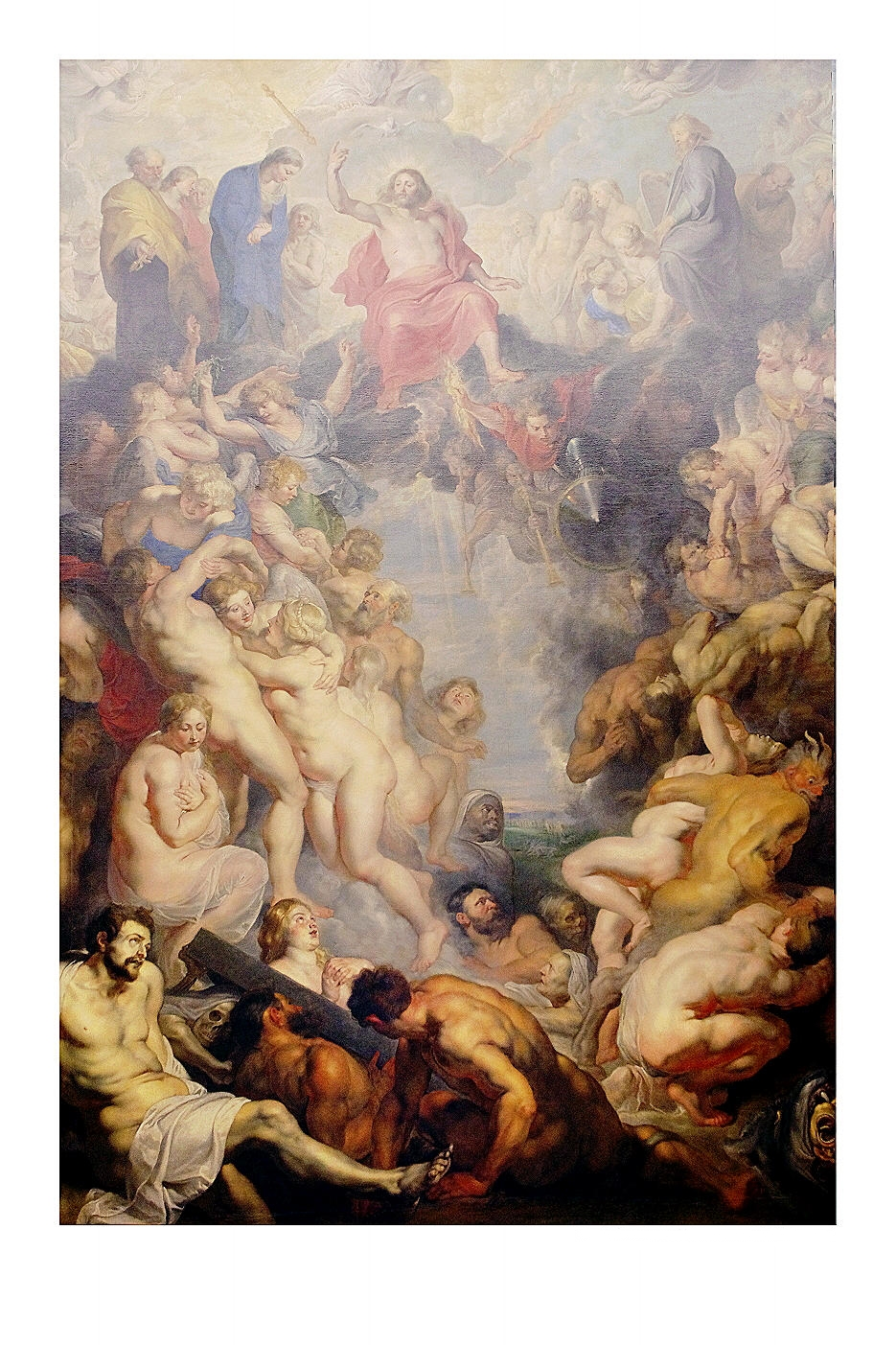 The Last Judgement